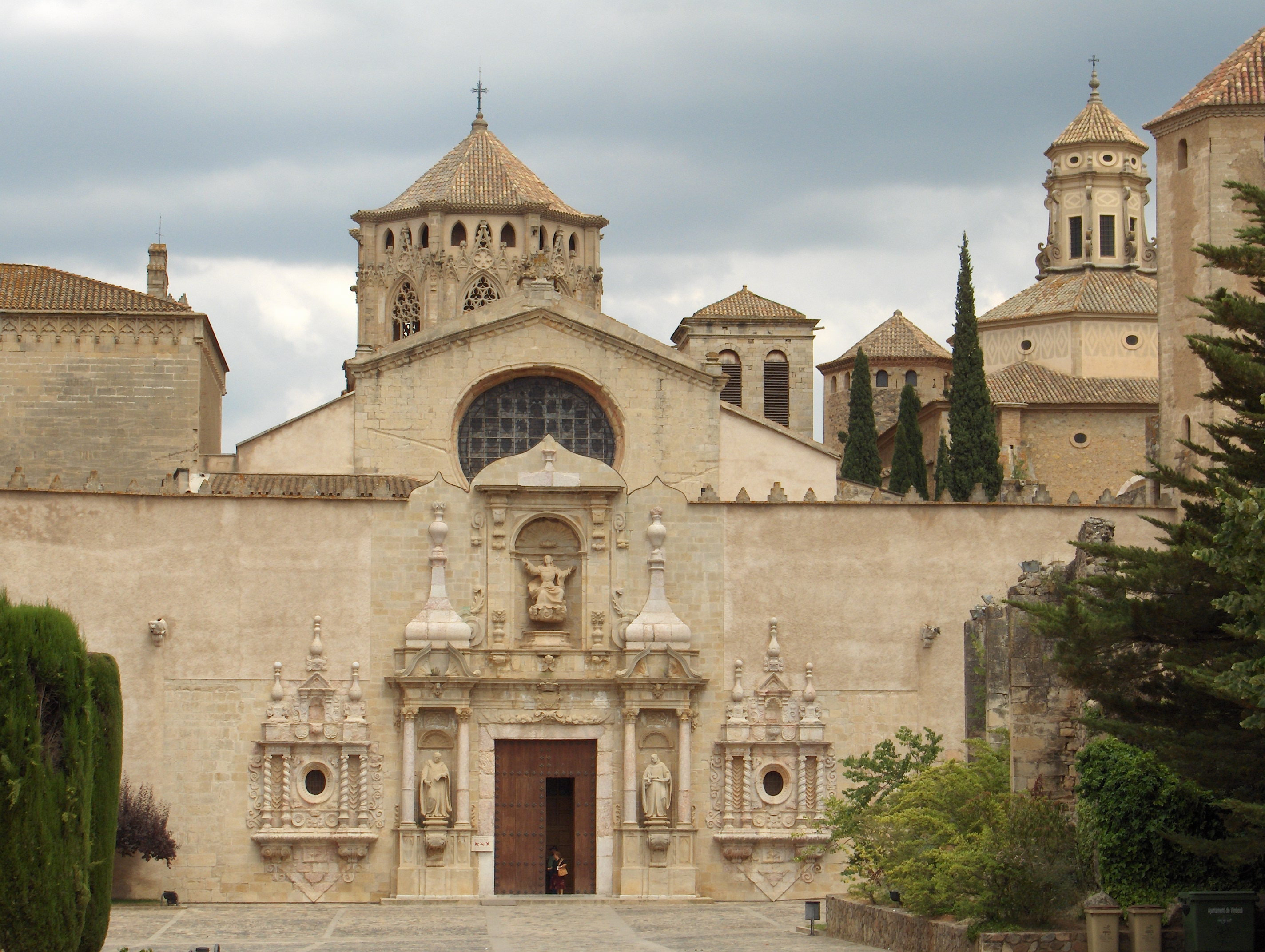 Poblet monastry in Catalunya, Spain; front view